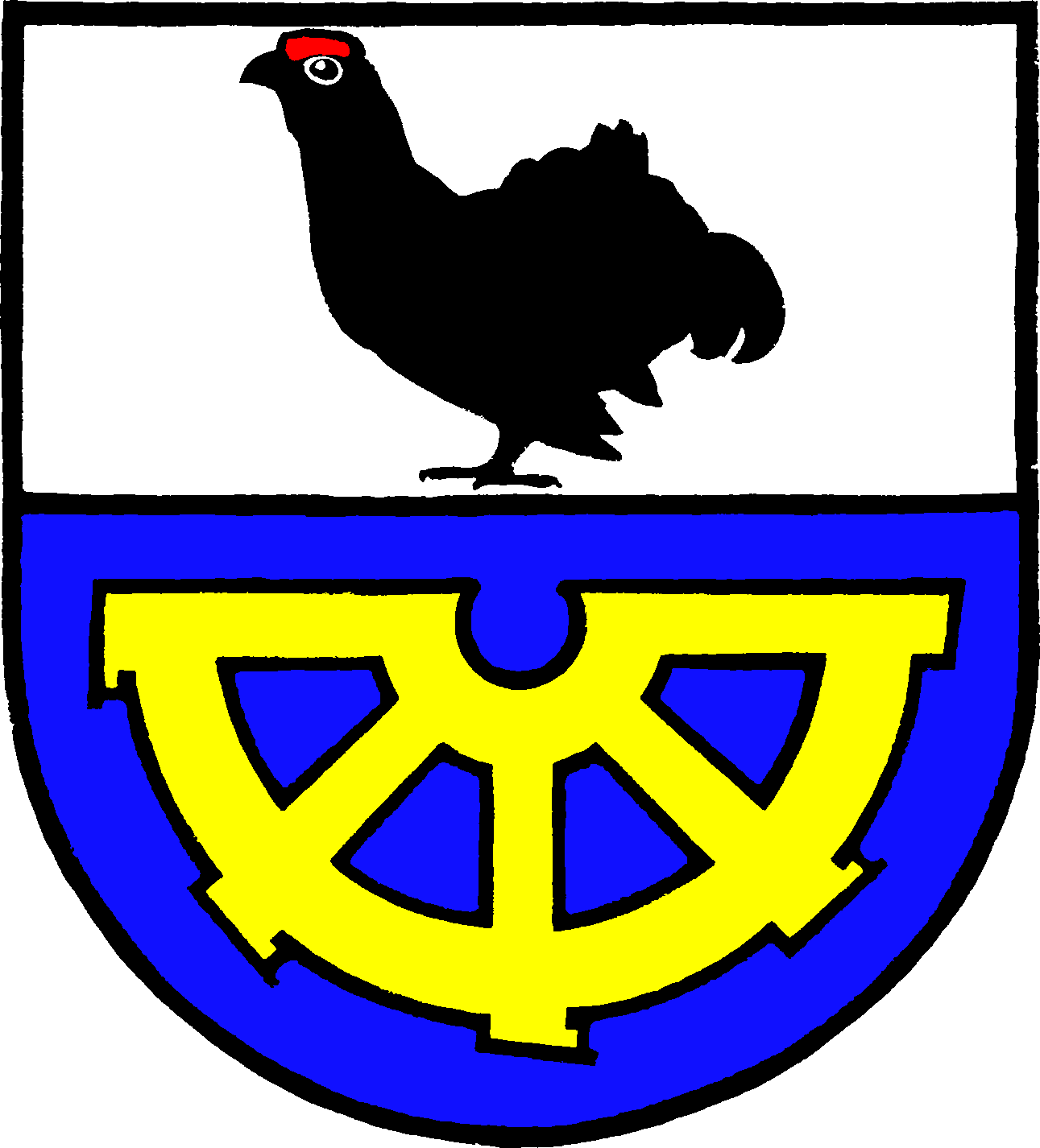 Coat of arms of the municipality Owschlag in Schleswig-Holstein, Germany.